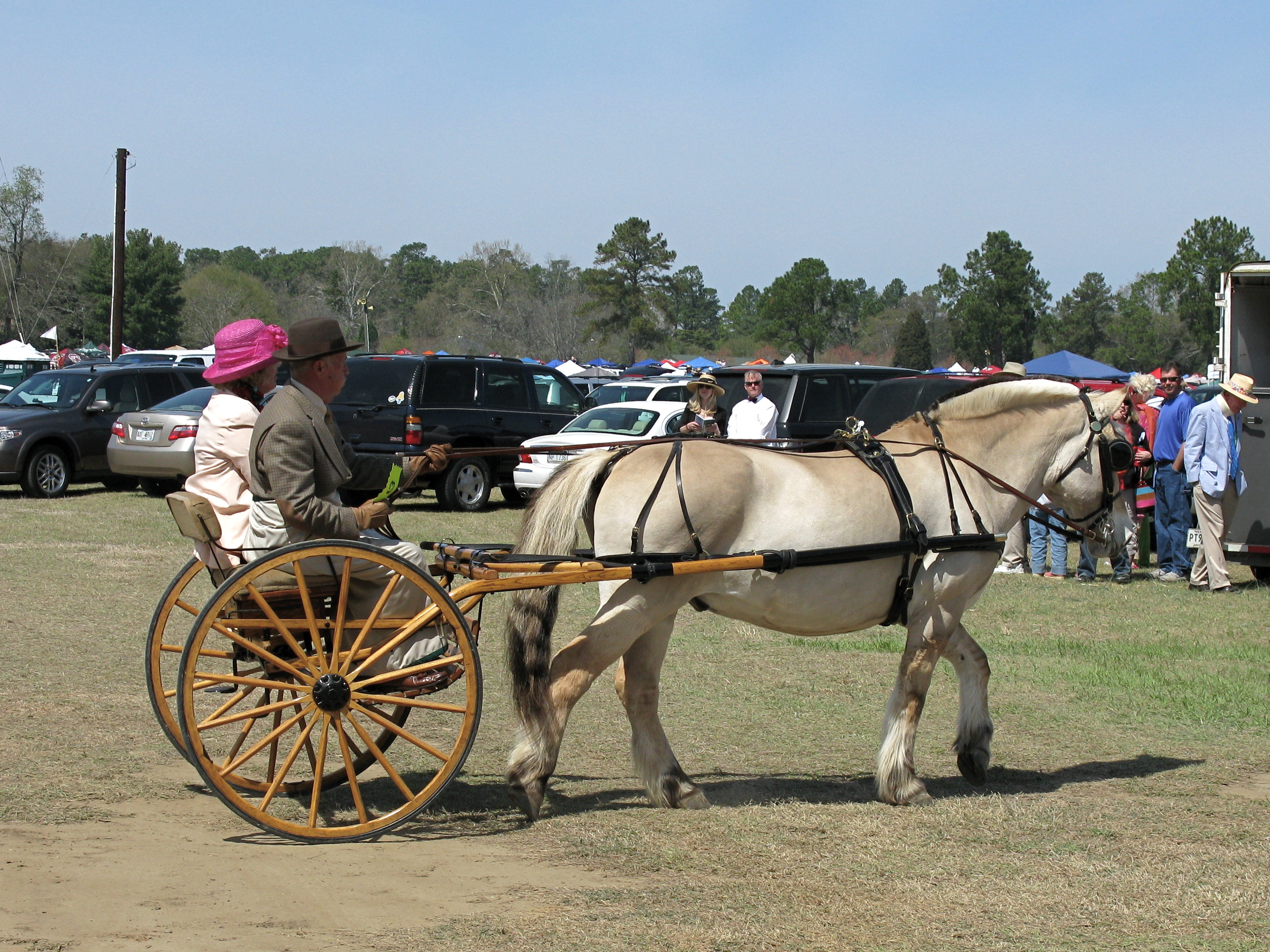 Road cart from Carriage Parade after 1st Race 43rd Aiken Spring Steeplechase (2009), Aiken SC